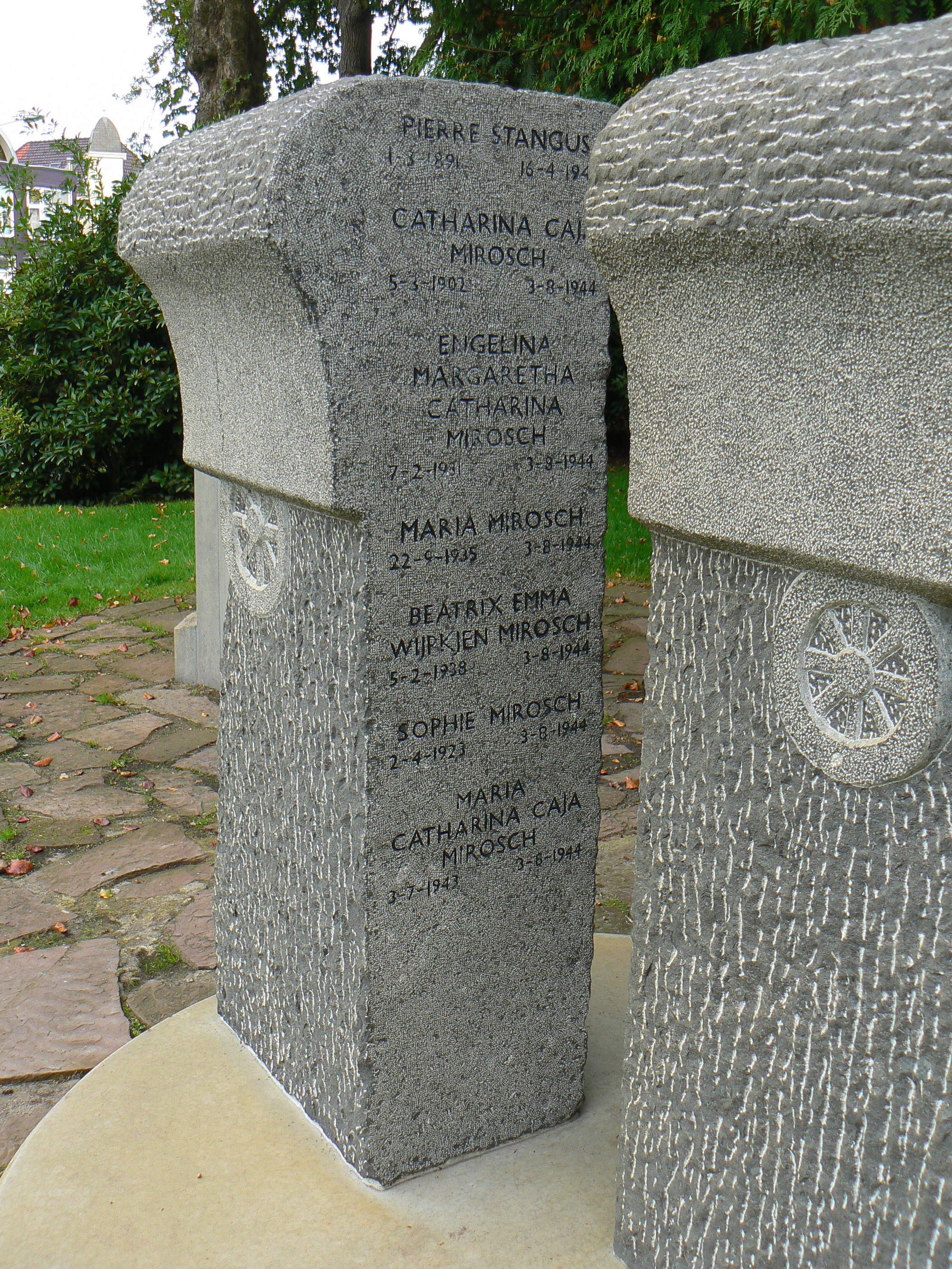 Memorial Zigeunermonument Drachten (2006) by Roelie Woudwijk, Stationsweg in Drachten/The Netherlands